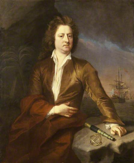 Portrait of Commodore the Honourable William Kerr